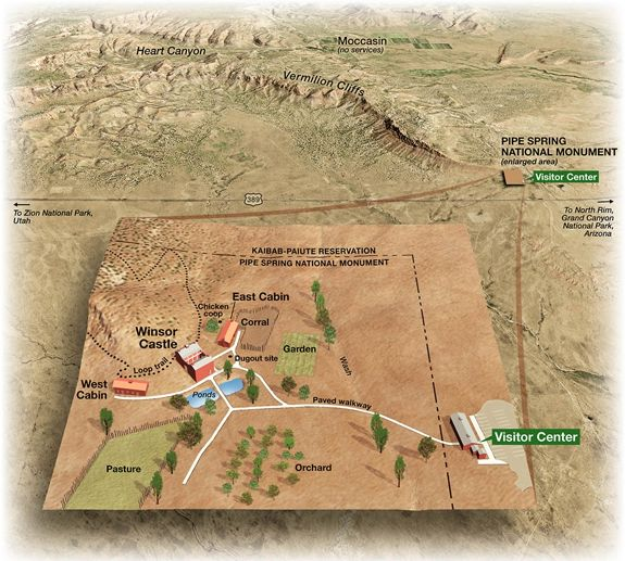 3D map of Pipe Spring National Monument, Arizona